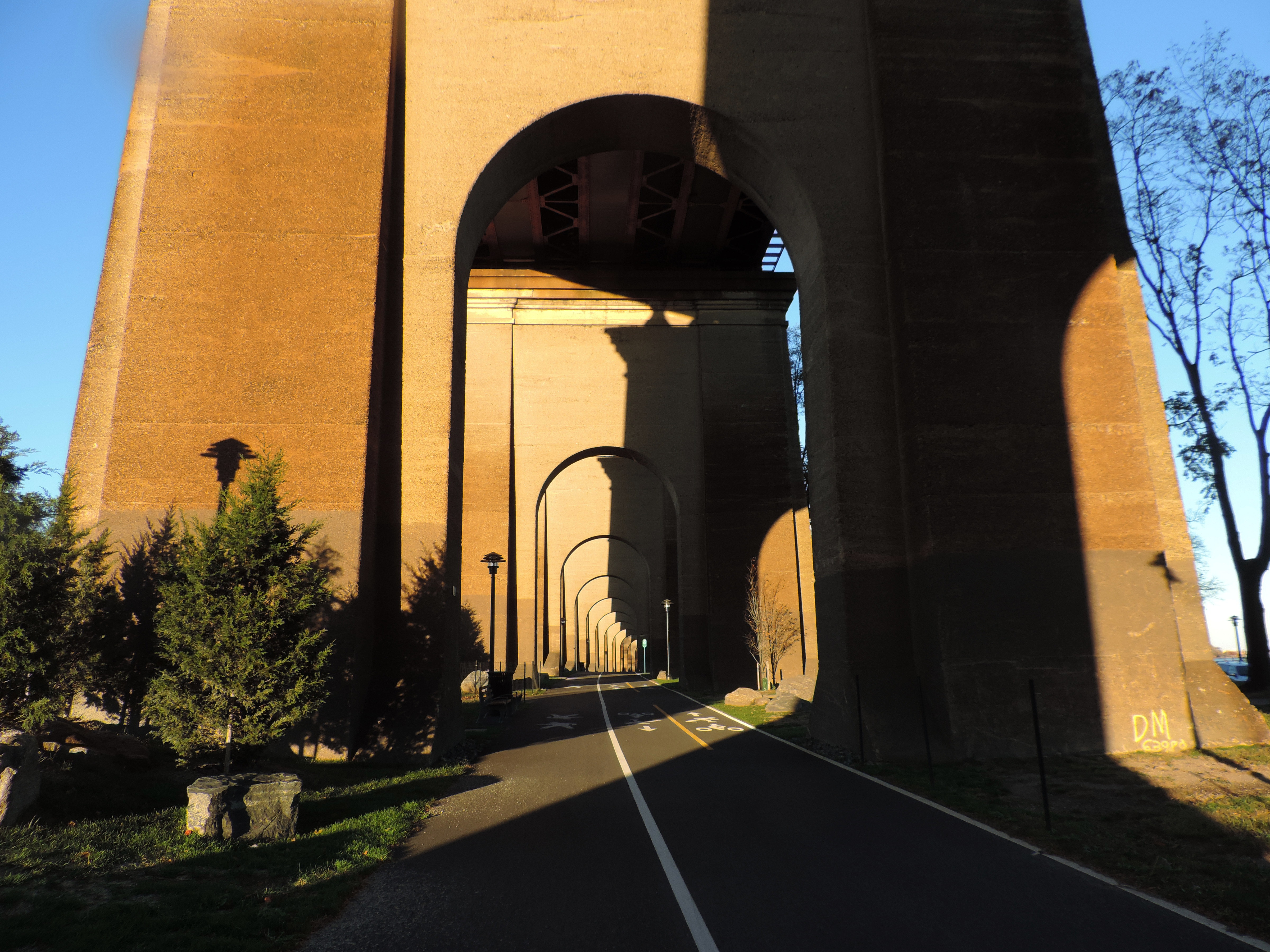 Looking north at arcade on a sunny late afternoon.